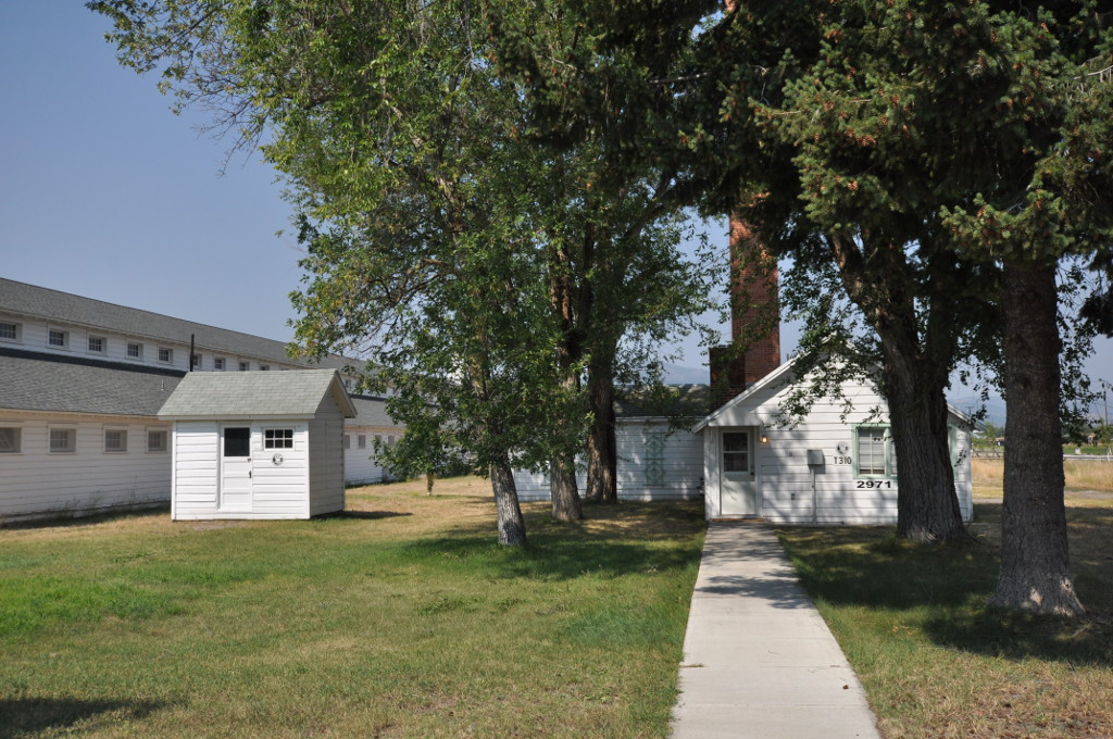 Fort Missoula Historic District, Missoula, Montana.